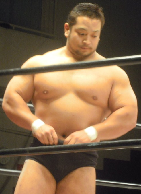 Japanese professional wrestler, Daisuke Sekimoto.Feb 12 2011 BJW Korakuen Hall